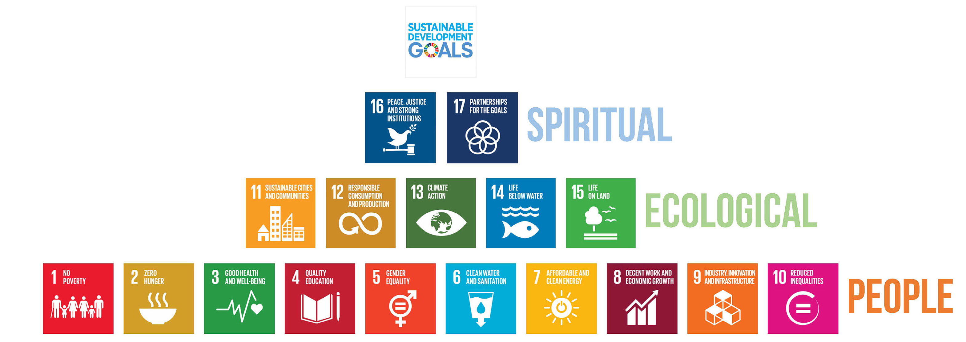 Sustainable Development Goals PyramidRomână: Piramida Obiectivelor de dezvoltare durabilă